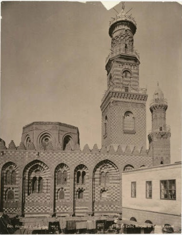 Photograph of the Sultan Qalawun complex